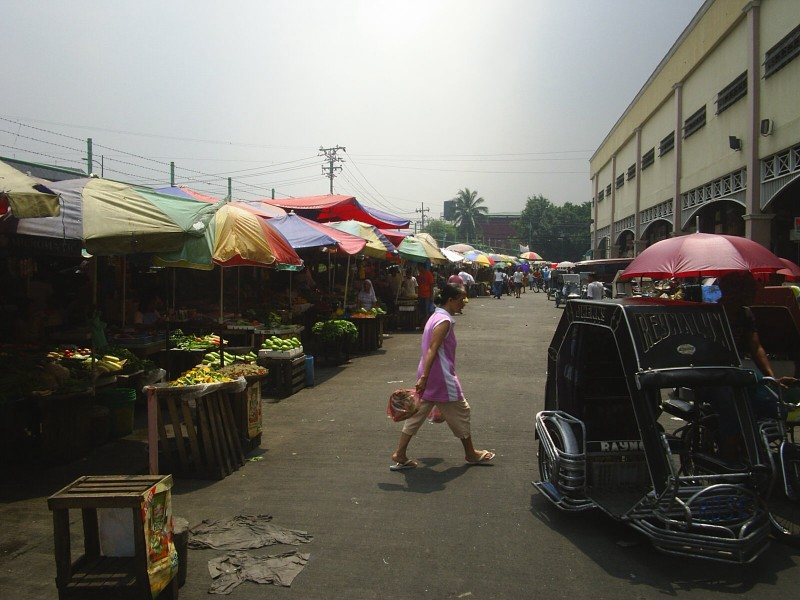 Fruit and vegetable stands at the perimiter of Pritil Market, Tondo, Manila.